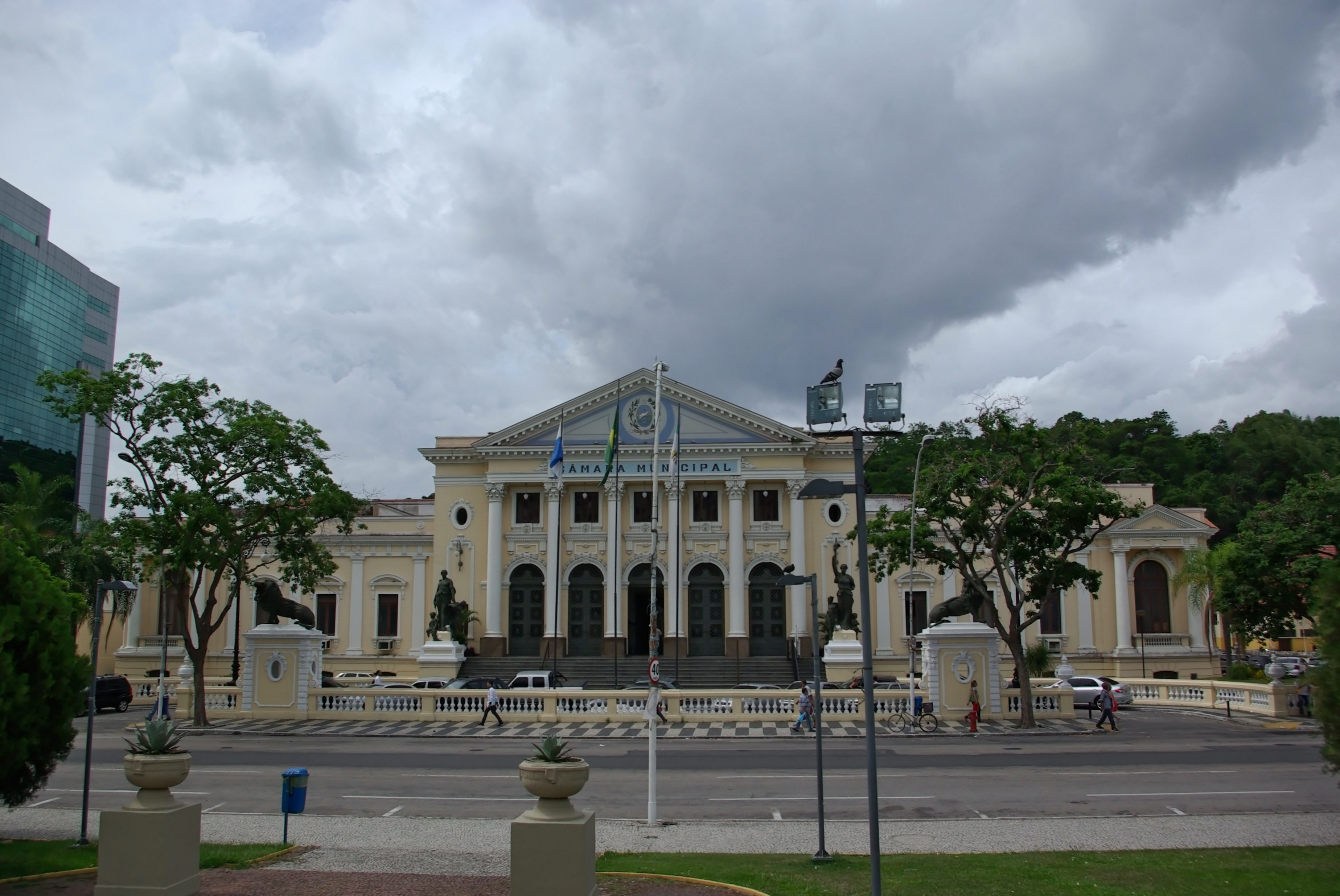 Chamber of Deputies - Niterói - Rio de Janeiro State - Brazil